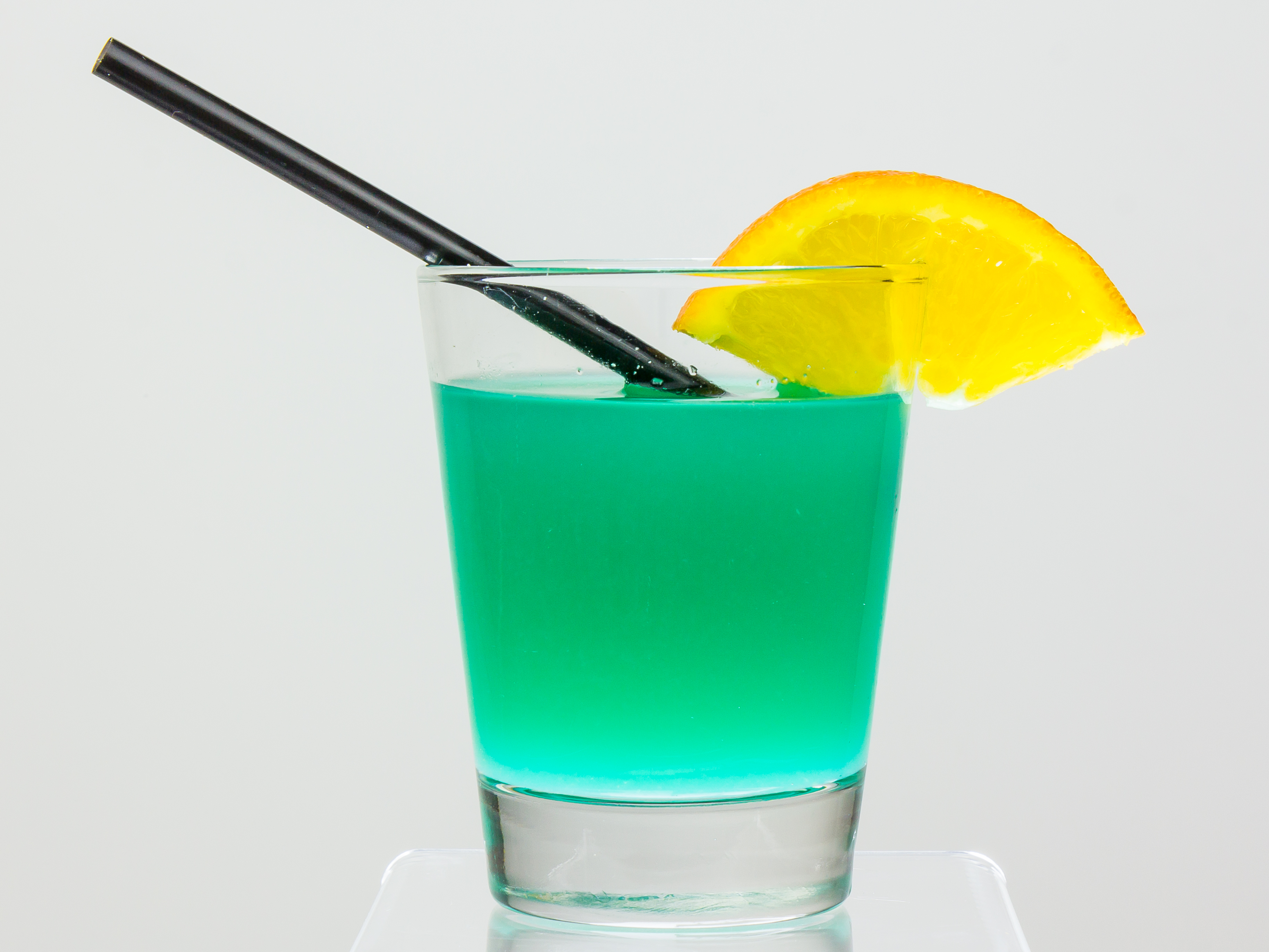 Green meadow, cocktail. With curacao, orange juice and sparkling wine